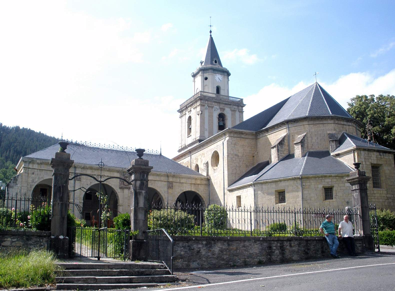 Santuario de Nuestra Señora de la Encina (Arceniega, Álava)